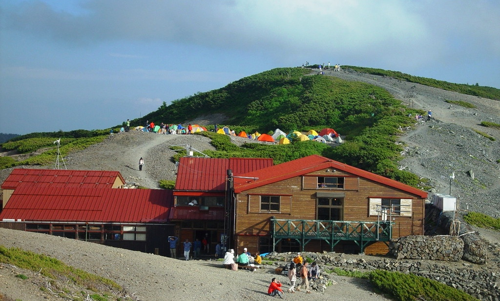 Chōgatake Hut and camp site, Mountain hut, in Mount Chō (Chōgatake), Hida Mountains, Nagano prefecture, Japan.